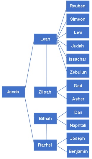 graph of Jacob and his 12 sons who became the 12 tribes of Israel - Bible